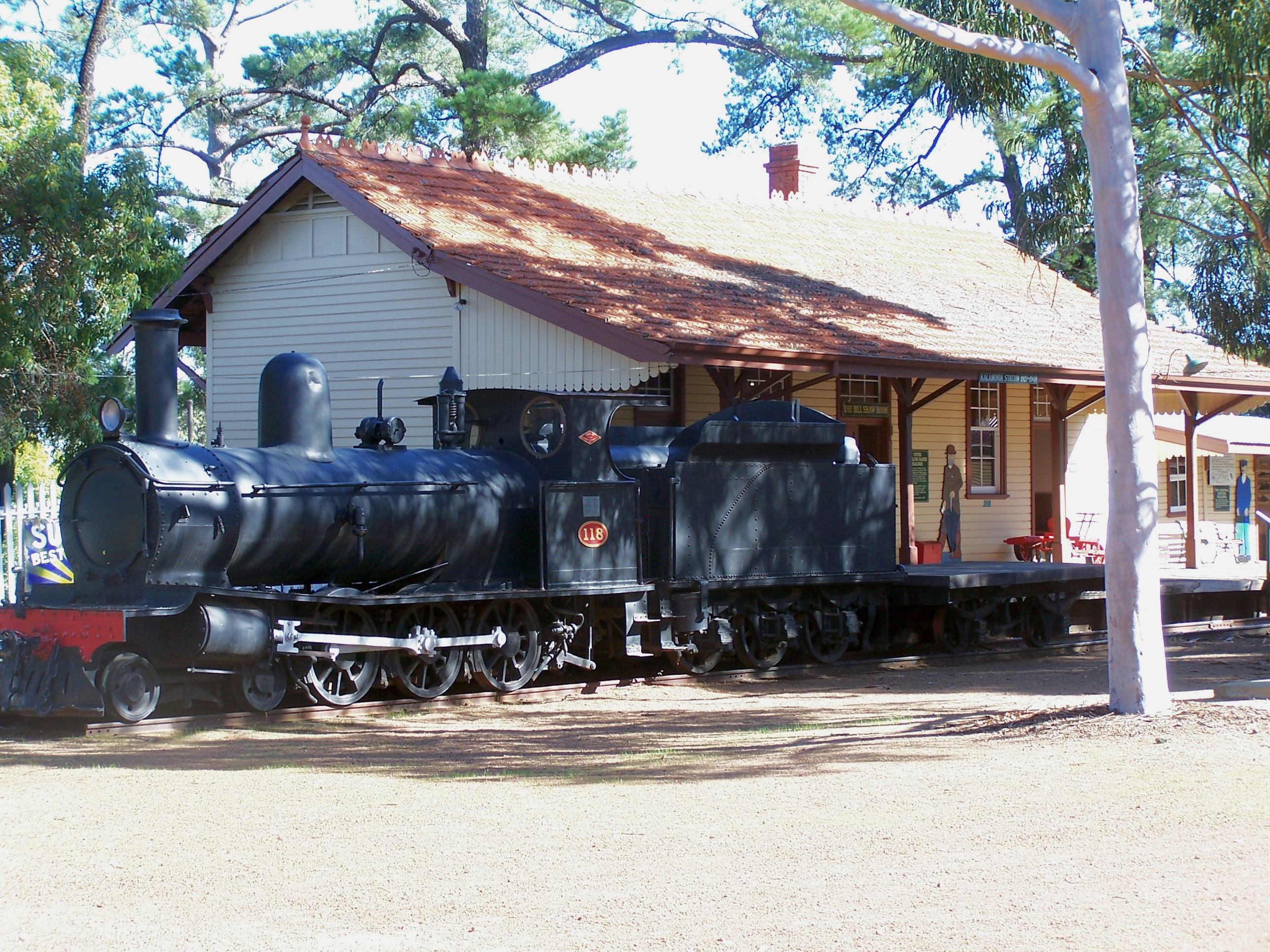 Steam loco G series engine 118 operated on the Upper Darling Range Railway, closed this engine is in the Kalamunda Historical Village which includes the second and third built Kalamunda stations. both are visable behind the engine with the third station being most visable, the second station was removed then returned to the site after the museum was opened and can be seen behind the engine along side the other station